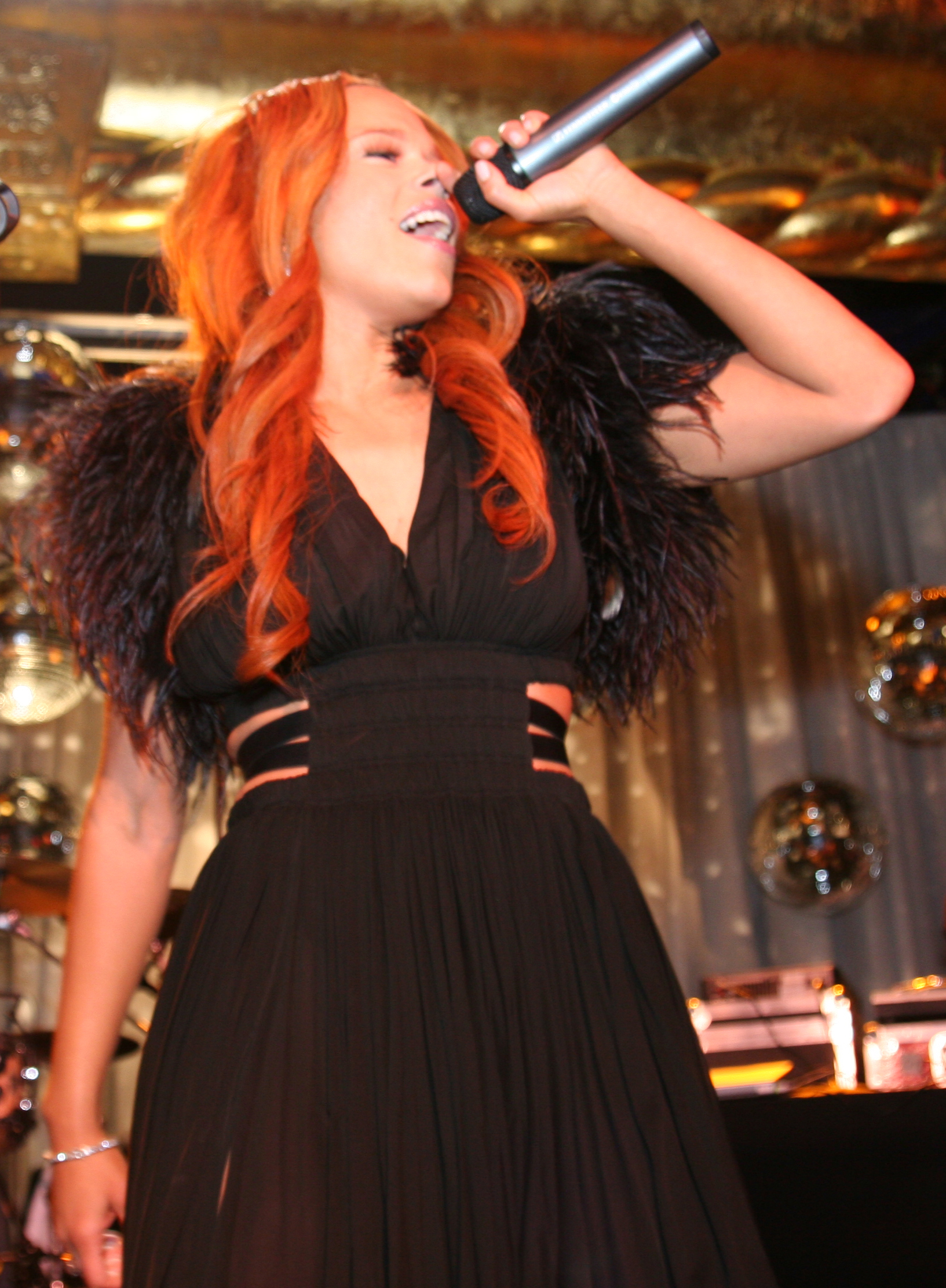 Faith Evans performing in April 2005.